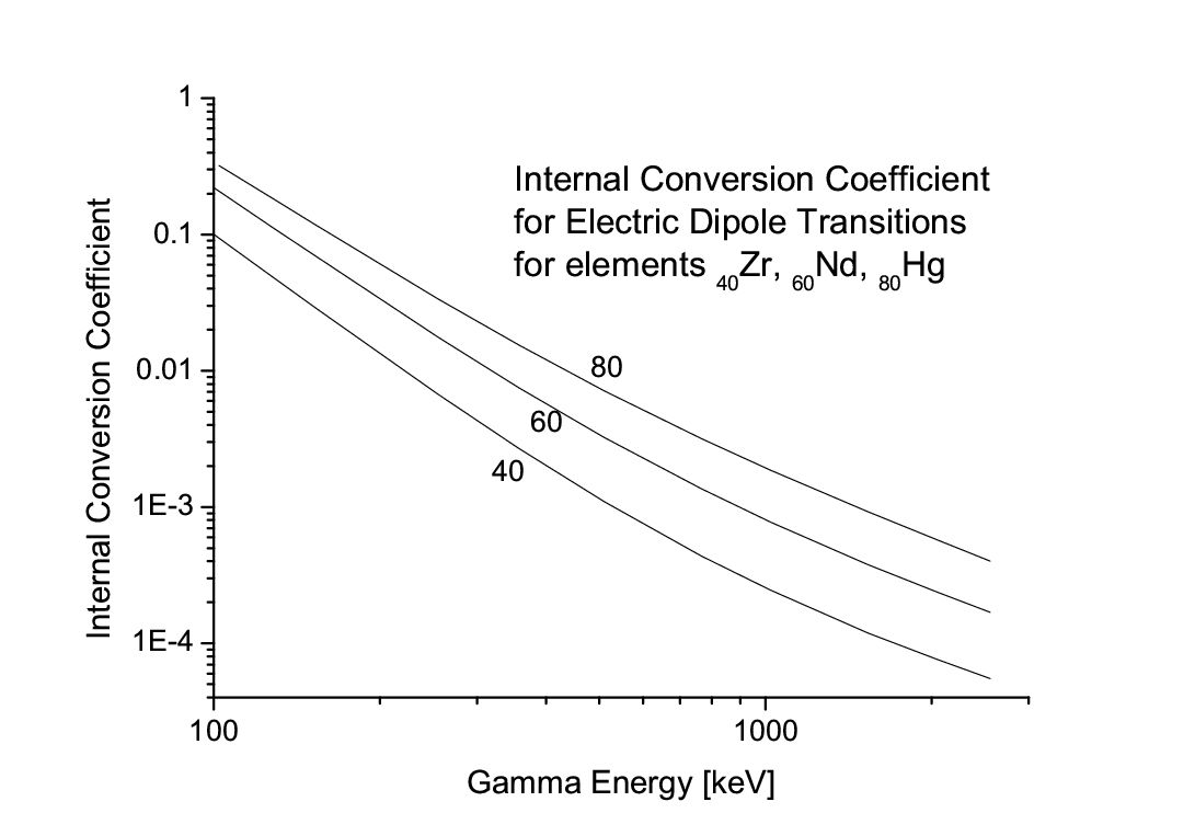 The Internal Conversion Coefficient for E1 transitions for Z = 40, 60, and 80 according to the tables by Sliv and Band. Note that the name IntConvE0.jpg is misleading